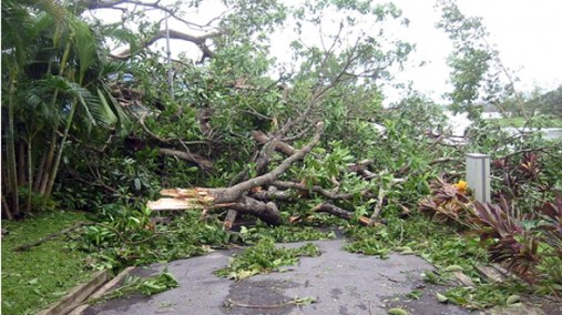 Trees fallen across a road in Rangoon, Burma following Cyclone Nargis May 5, 2008. [State Department photo]